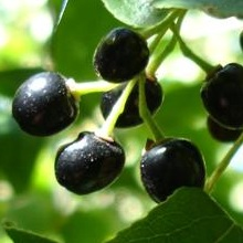 Extracted close up.